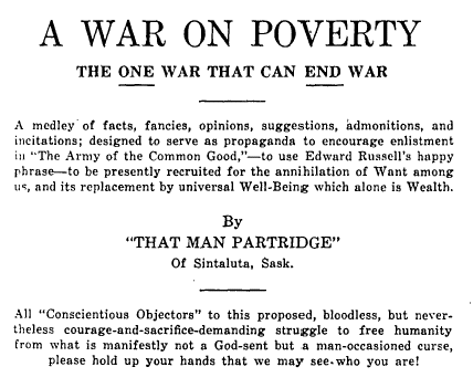 Title page of A war on poverty: the one war that can end war (Winnipeg, 1925) by E.A. Partridge